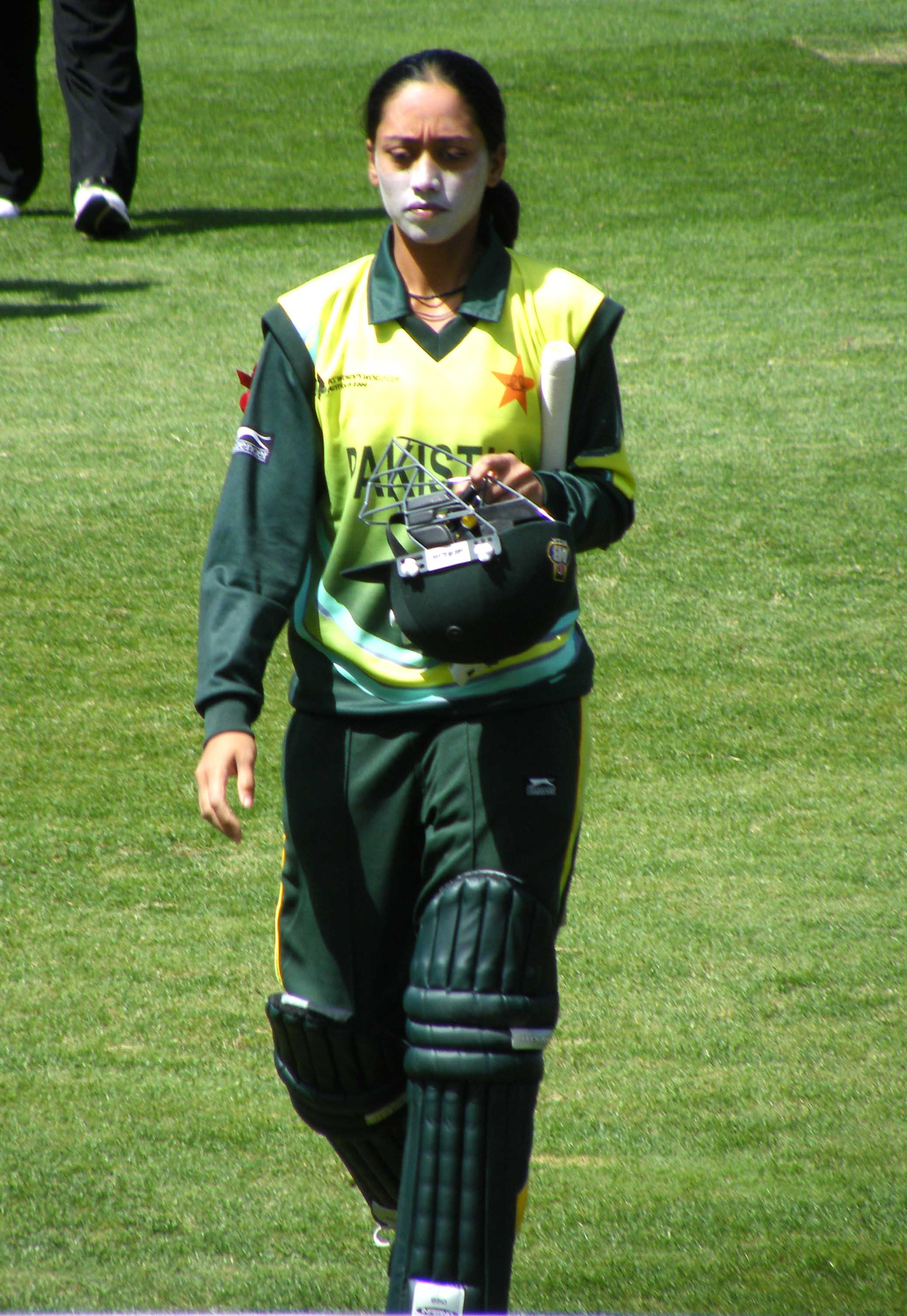 Batool Fatima of Pakistan - ICC Women's Cricket World Cup - Sydney, March 2009.